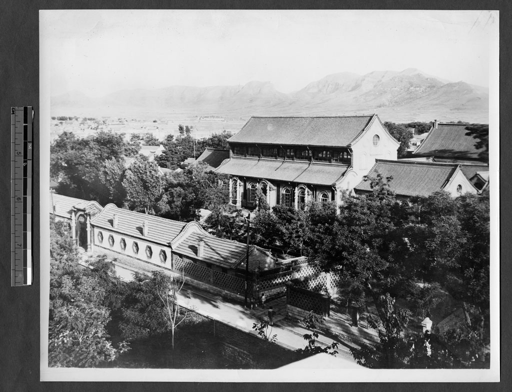 Cheeloo University and Whitewright Institute, Jinan, Shandong, China, 1947, source: YDS/RG011/414/5869/4593, Yale Divinity Library Special Collections. Uploaded to Wikimedia Commons with permission from Yale Divinity Library.